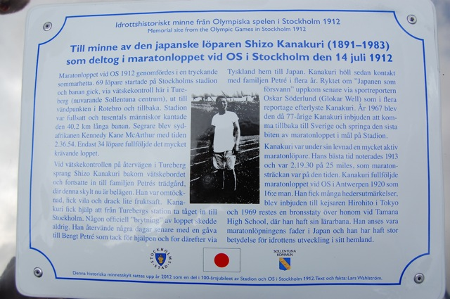 Commemorative plaque of Shizo Kanakuri in Sollentuna. The plaque was unveiled at the location where the Petré family house was situated. The house has now been replaced by a gymnasium called "Satelliten".